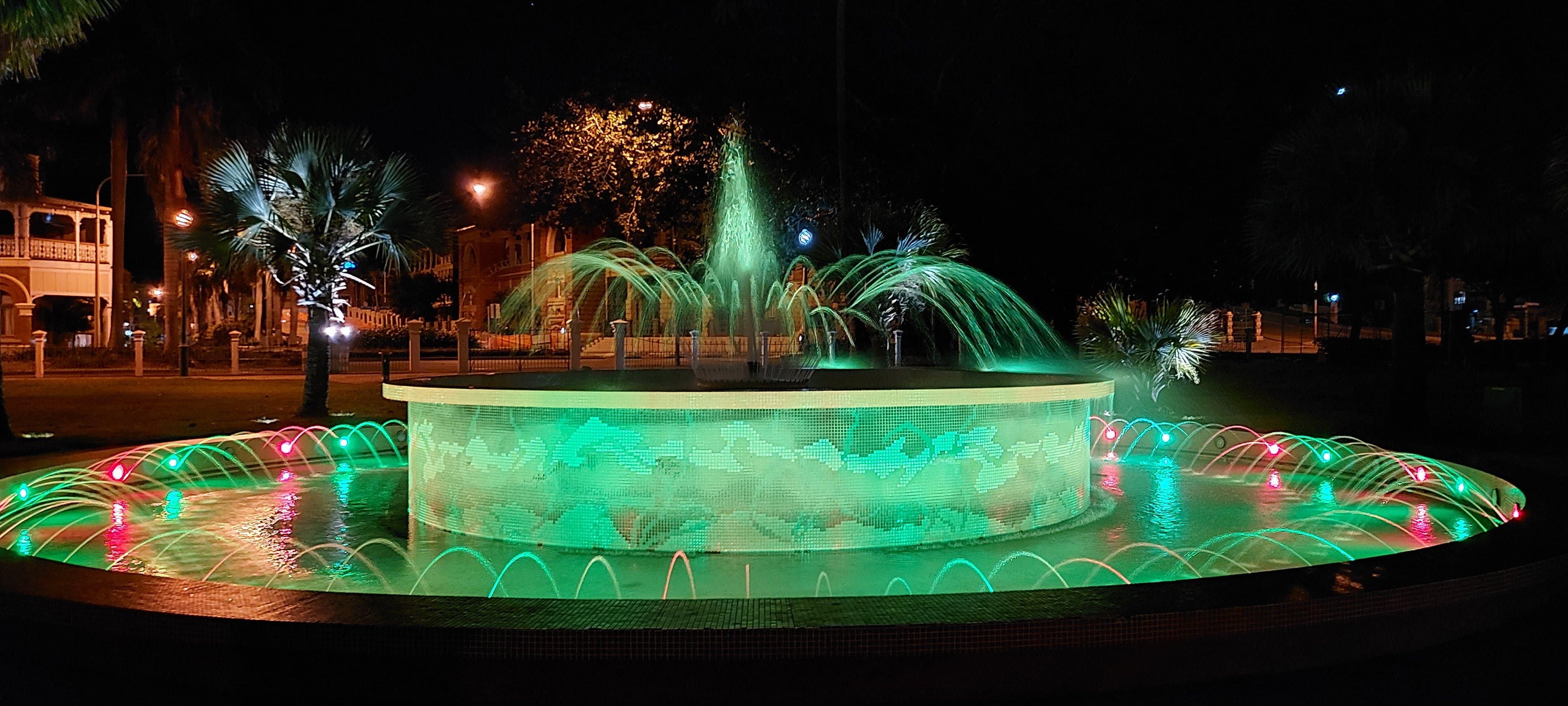 The Centenary Fountain in Townsville's Anzac park